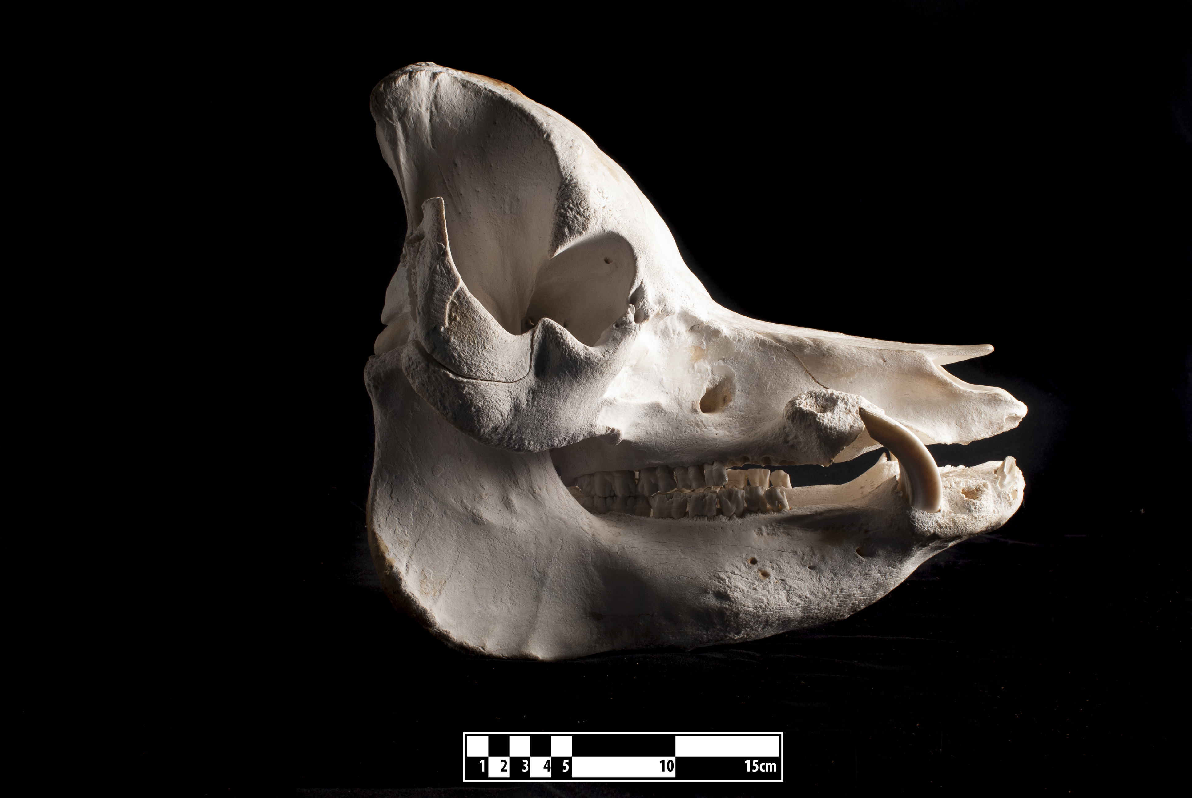 Domestic pig skull. Sus domesticus Specimen of domestic pig skull prepared by the bone maceration technique and on display at the Museum of Veterinary Anatomy FMVZ USP. This file was published as the result of a partnership between the Museum of Veterinary Anatomy FMVZ USP, the RIDC NeuroMat and the Wikimedia Community User Group Brasil. This GLAM project is reported. Photography: Museum of Veterinary Anatomy FMVZ USP. Author: Wagner Souza e Silva.